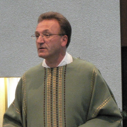 Provincial of the Society of Jesus in Sankt Georgen chapel in Frankfurt am Main.